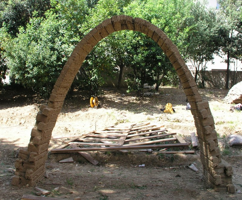 Catenaria in terra cruda a più corsi di conci